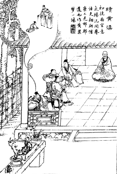 19th-century illustration of a scene from the short story "A Sequel to the Yellow Millet Dream" collected in Strange Tales from a Chinese Studio (1740).